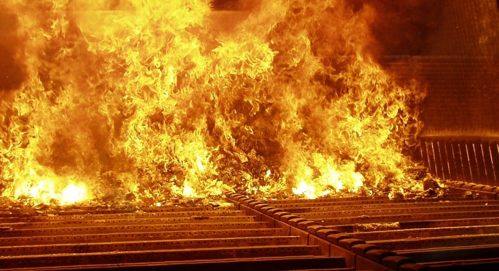 Municipal solid waste during combustion in a moving grate incinerator (of a waste-to-energy plant) capable of handling 15 tonnes per hour waste. The primary combustion air enters the furnace through the holes visible on the grate.